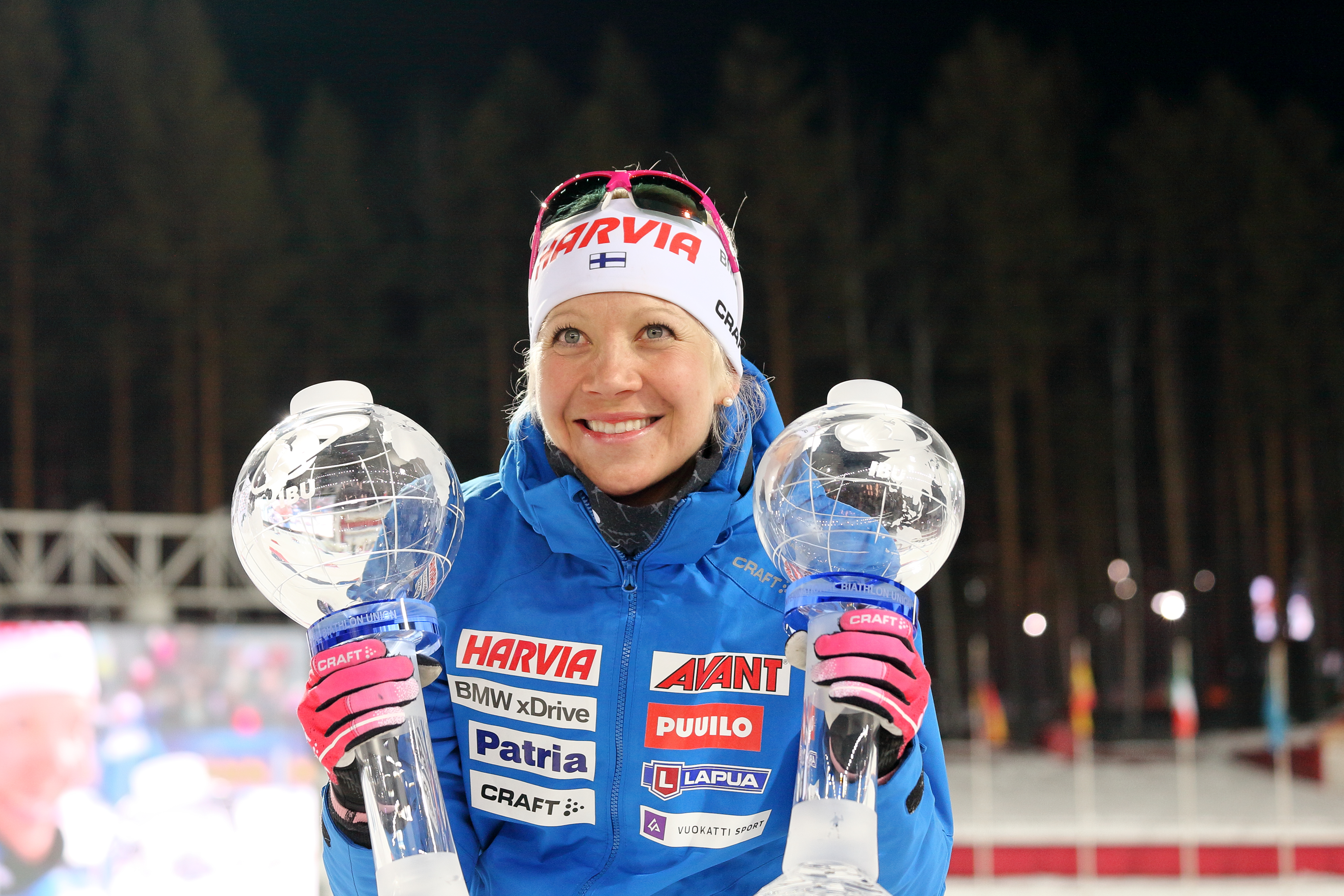 IBU Big and Small Crystal Globes